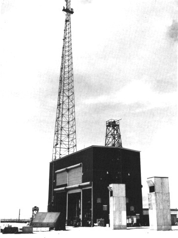 Outside the Mike shot cab